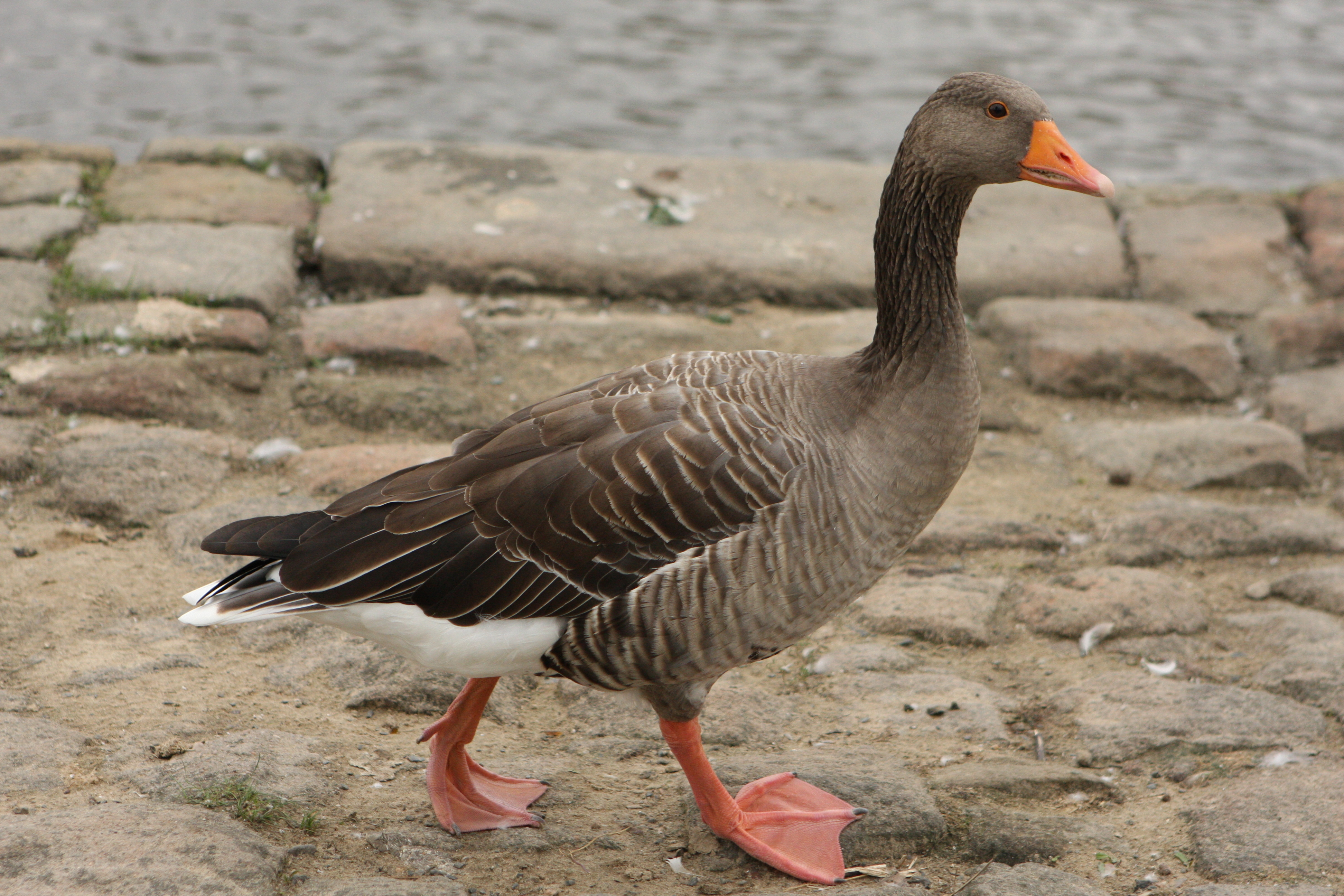 Greylag Goose